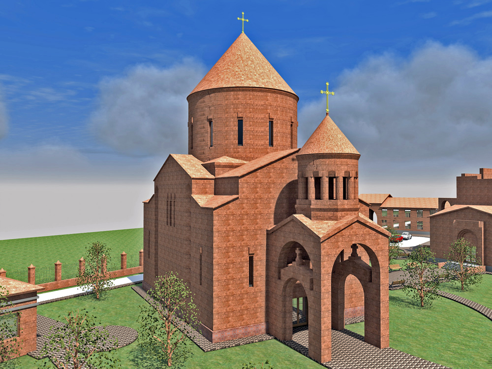 New Armenian Church in Volgograd